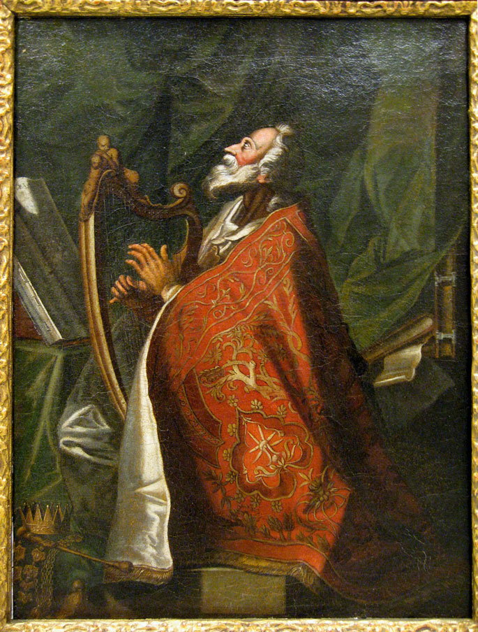 King David